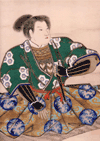 Kikuchi Taketomo